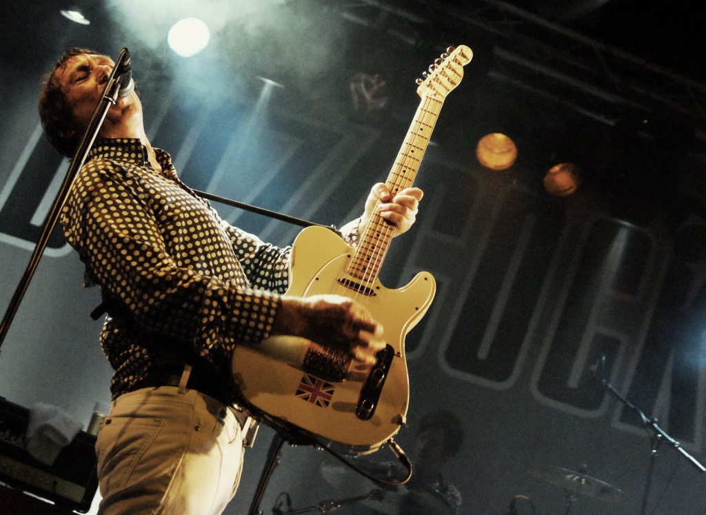 Steve Diggle performing at Holmfirth Picturedrome, Holmfirth, on Saturday the 10th of December 2011